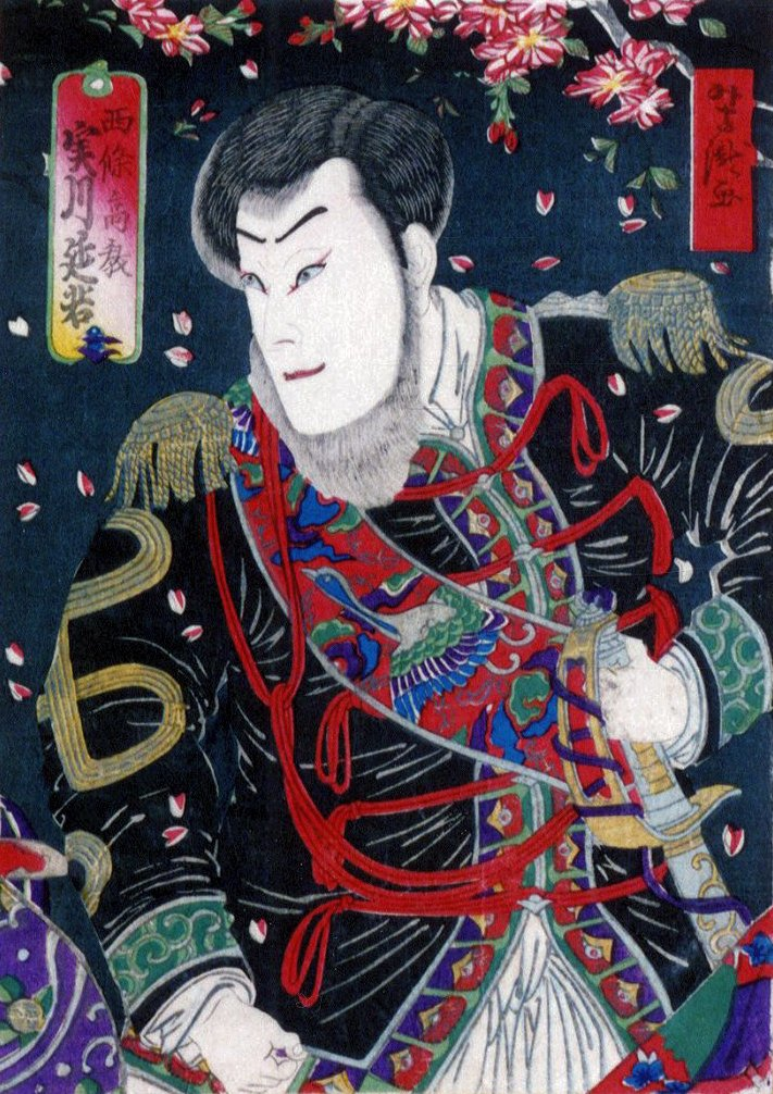 Enjaku Jitsukawa I (1831–1885) as Saijō Takanori in the March 1873 Osaka Ebisu-za production of Seinan Yume Monogatari, by Yoshitaki Utagawa